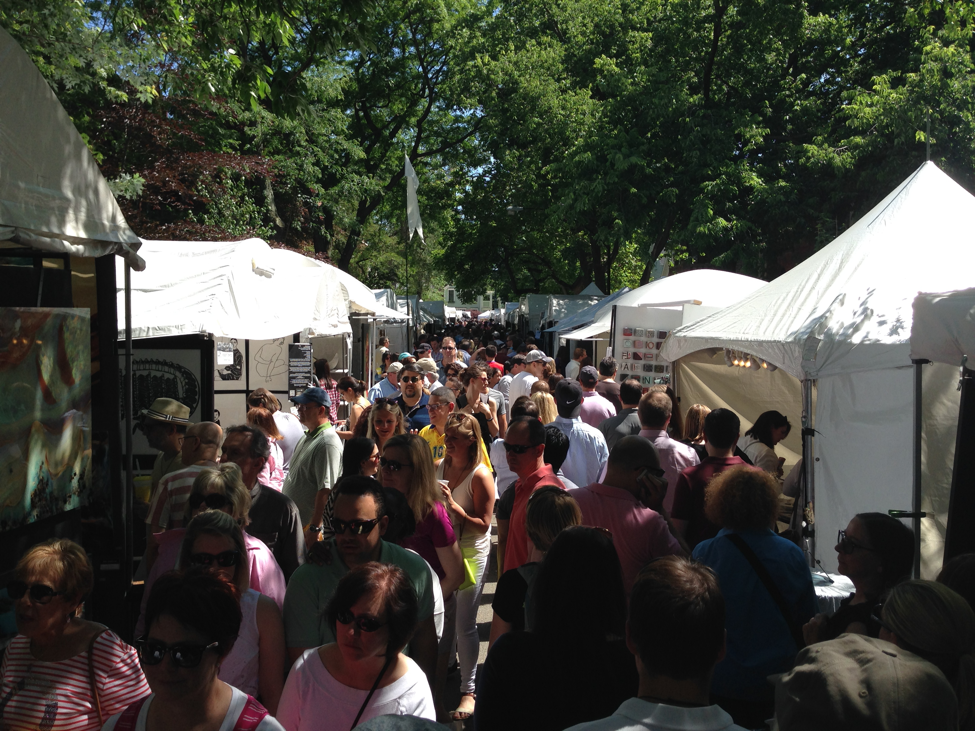 old town art fair Chicago 2014